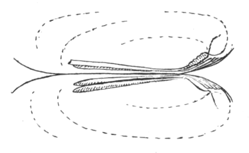 Drawing of the hinge of Cucumerunio websteri.